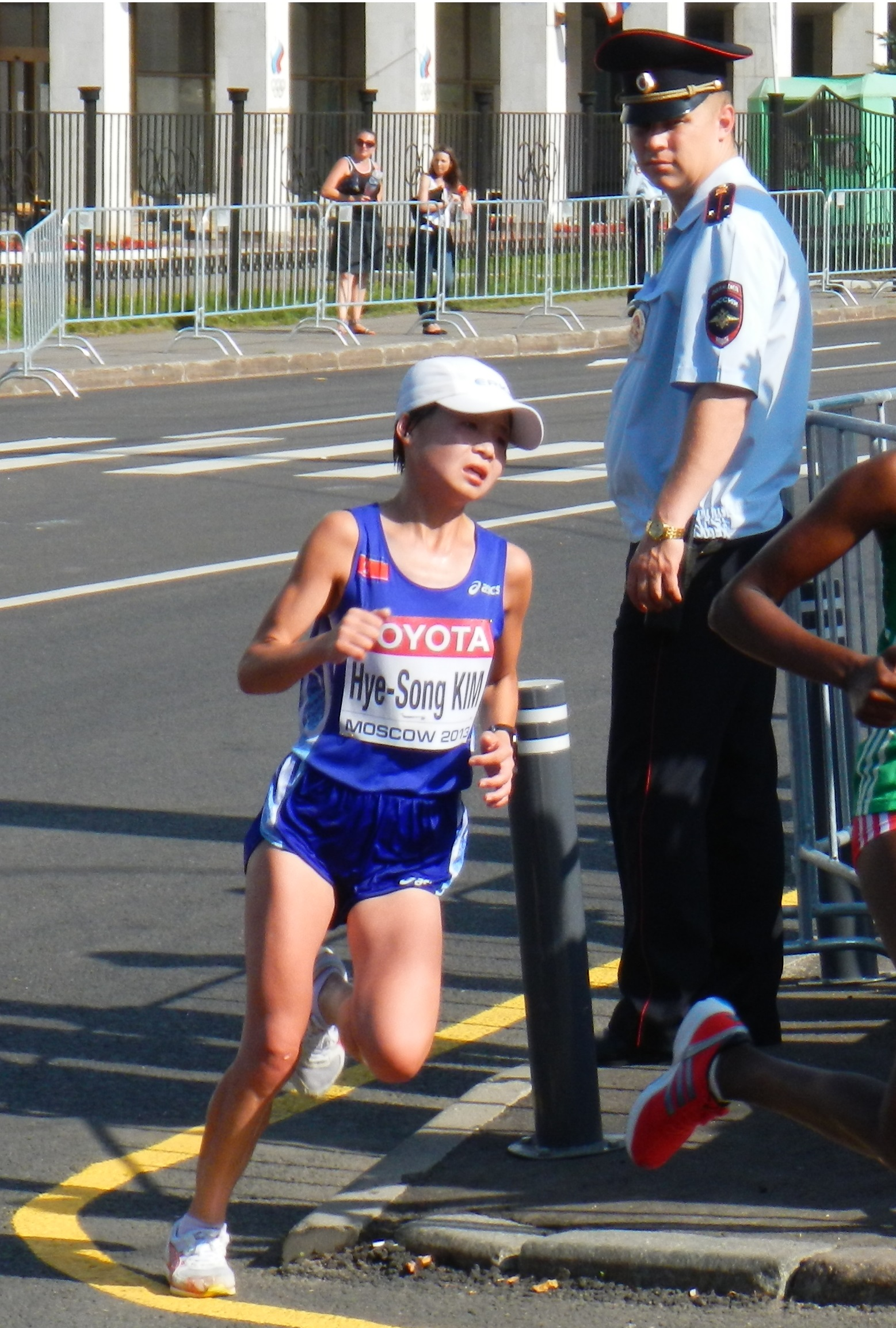 Cropped.